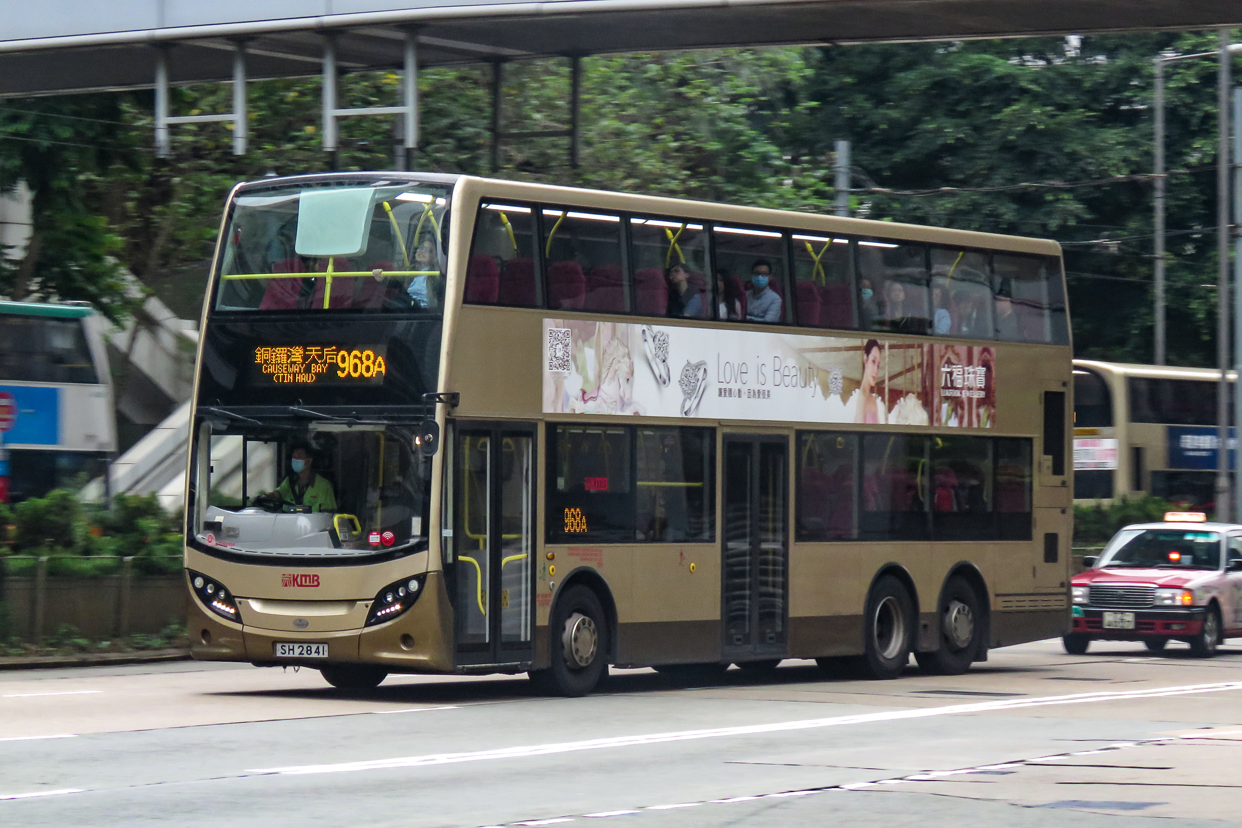 Only morning...